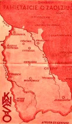 Front page of a postcard described "Remember Zaolzie" and showing Czechoslovak part of Cieszyn Silesia as Polish land which should be united with Poland. The inscription "KWoŚzaO" stands for the Committee for Fight for Silesia beyond the Olza River (i.e. Zaolzie), which was an organisation striving to unite Zaolzie with Poland.